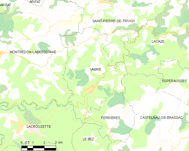 Map commune FR insee code 81305.png - Vabre